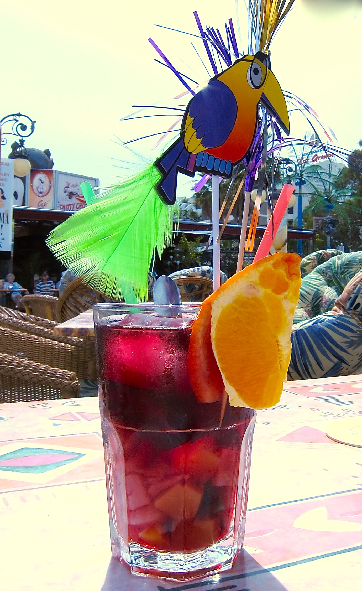 Sangriadrink